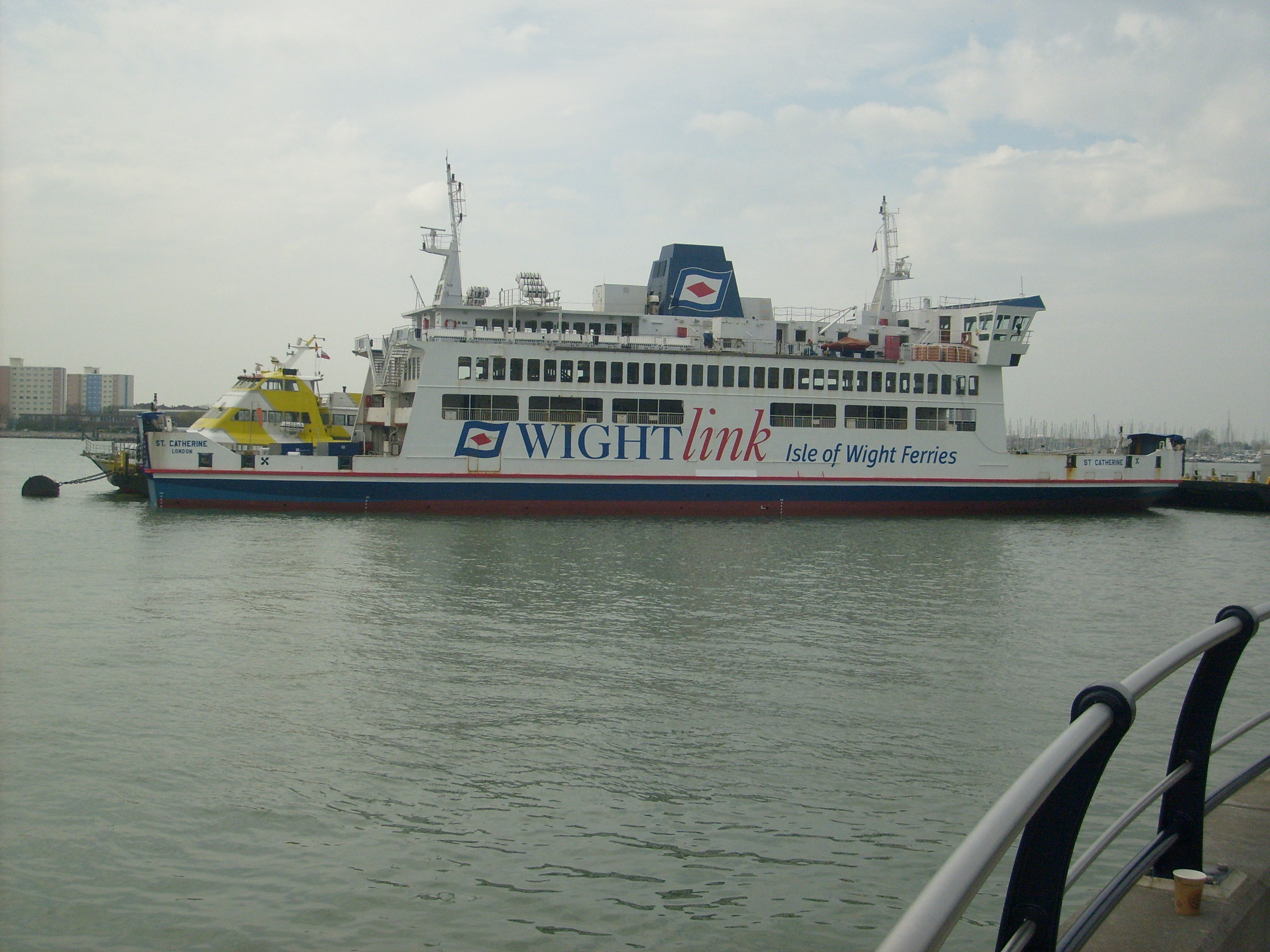 Wightlinks Portsmouth - Fishbourne 'St Catherine' Ferry seen from Gunwharf Quays.